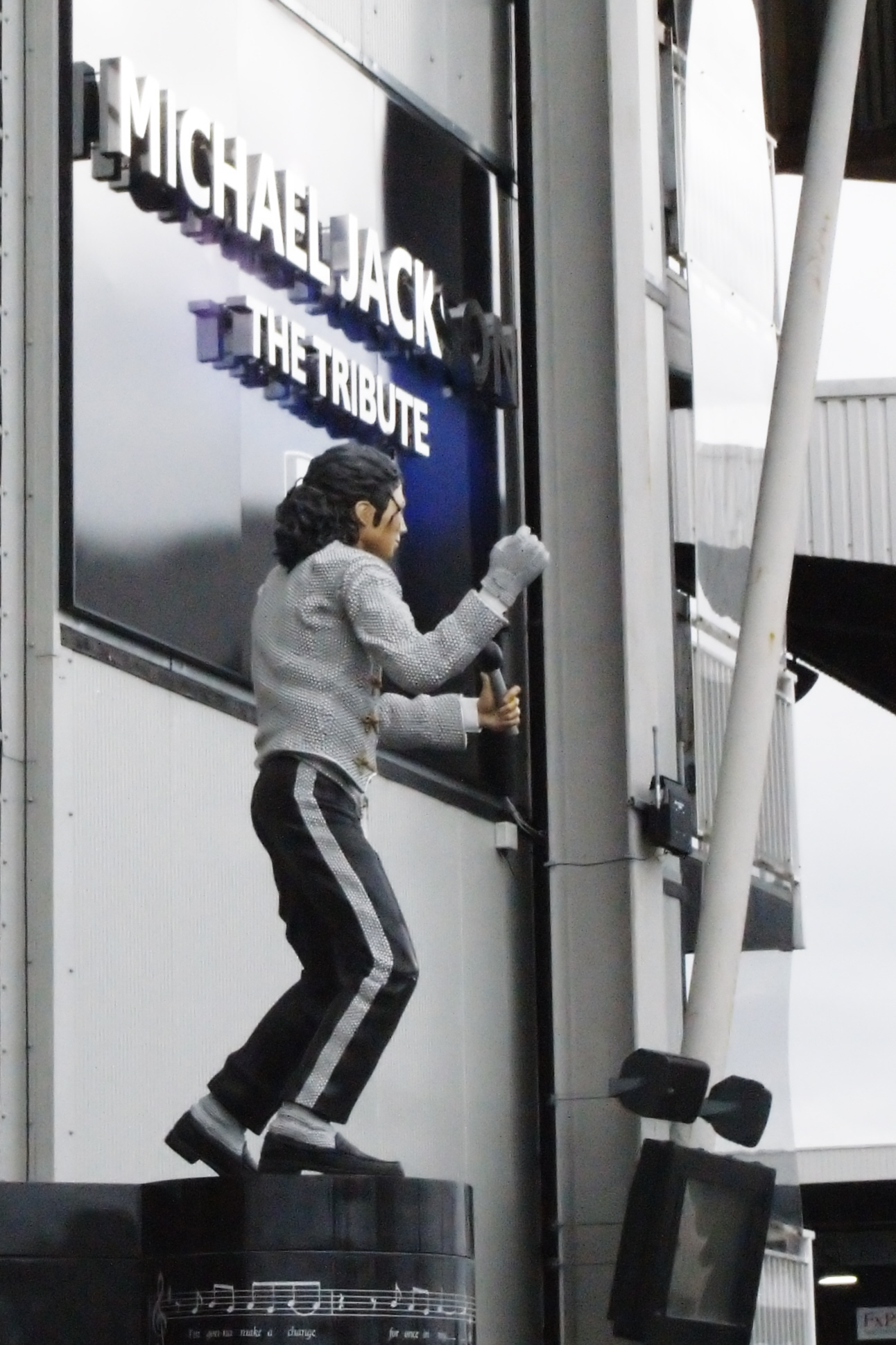 Statue of Michael Jackson (by ?) in grounds of Craven Cottage, Fulham, London. On Thames riverside. Photo taken through security fence - you can pay £5 for a tour and a better view, if you are feeling rich. Update - the statue was removed late September 2013.